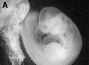 Embryos of stage 28 Monodelphis domestica. Note the massive maxillary and mandibular processes and the large olfactory pits and frontonasal processes